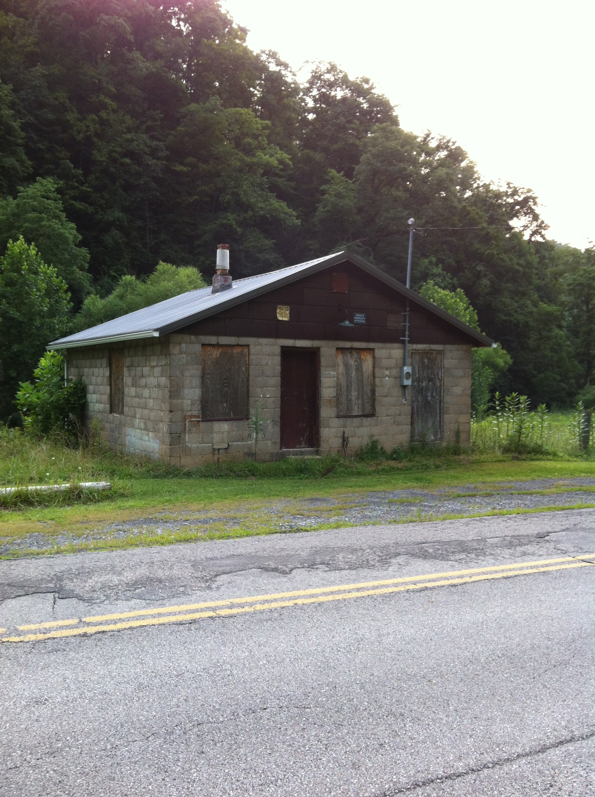 This is a photograph of Whirlwind's last post office.